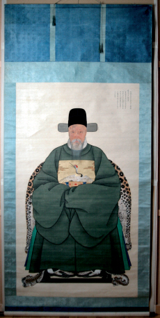 Korean Neo-Confucian scholars, politicians and writers